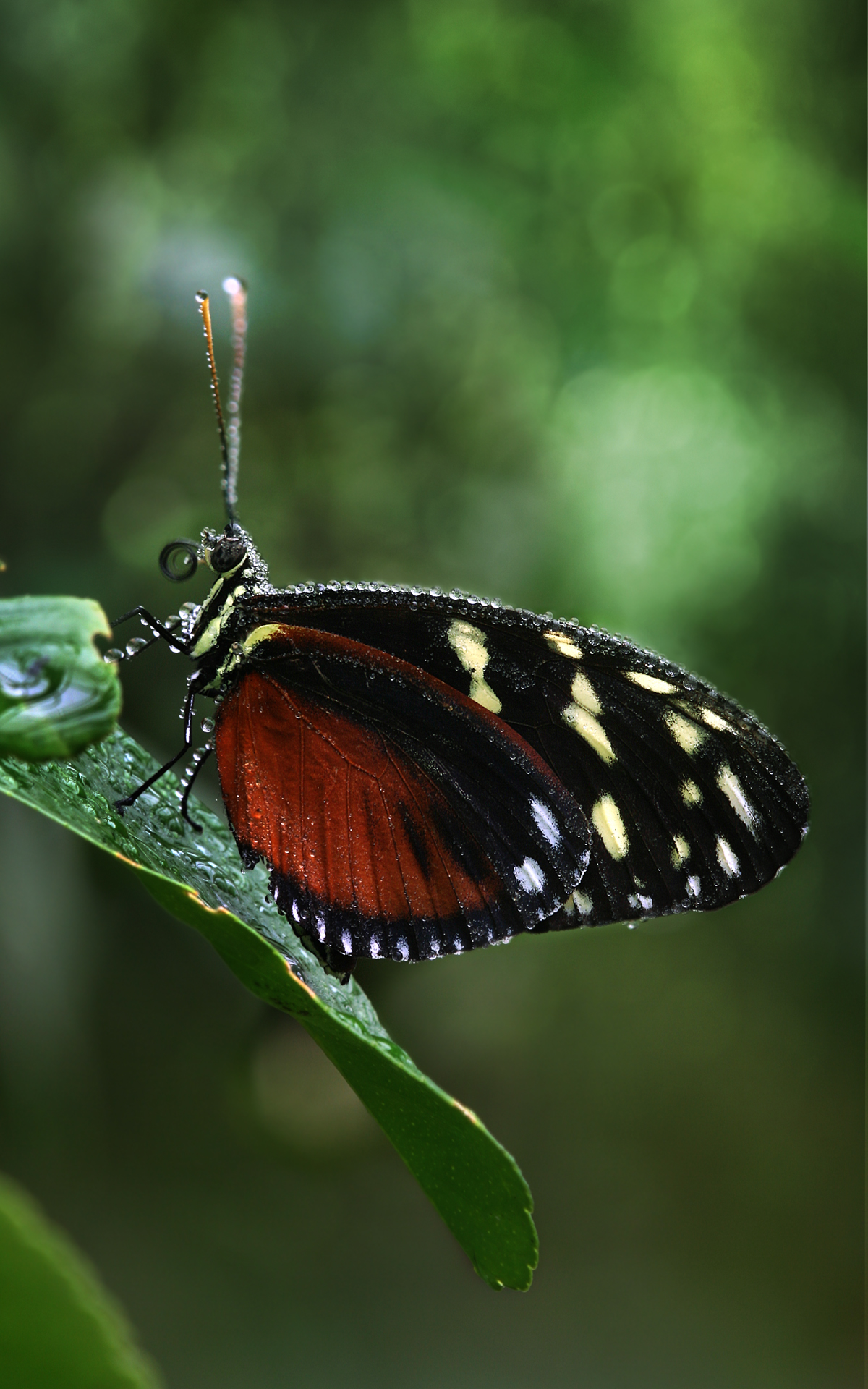 Heliconius comprise a colorful and widespread butterfly genus distributed throughout the tropical and subtropical regions of the New World. As shown Heliconius ismenius Heliconius hecale zuleika